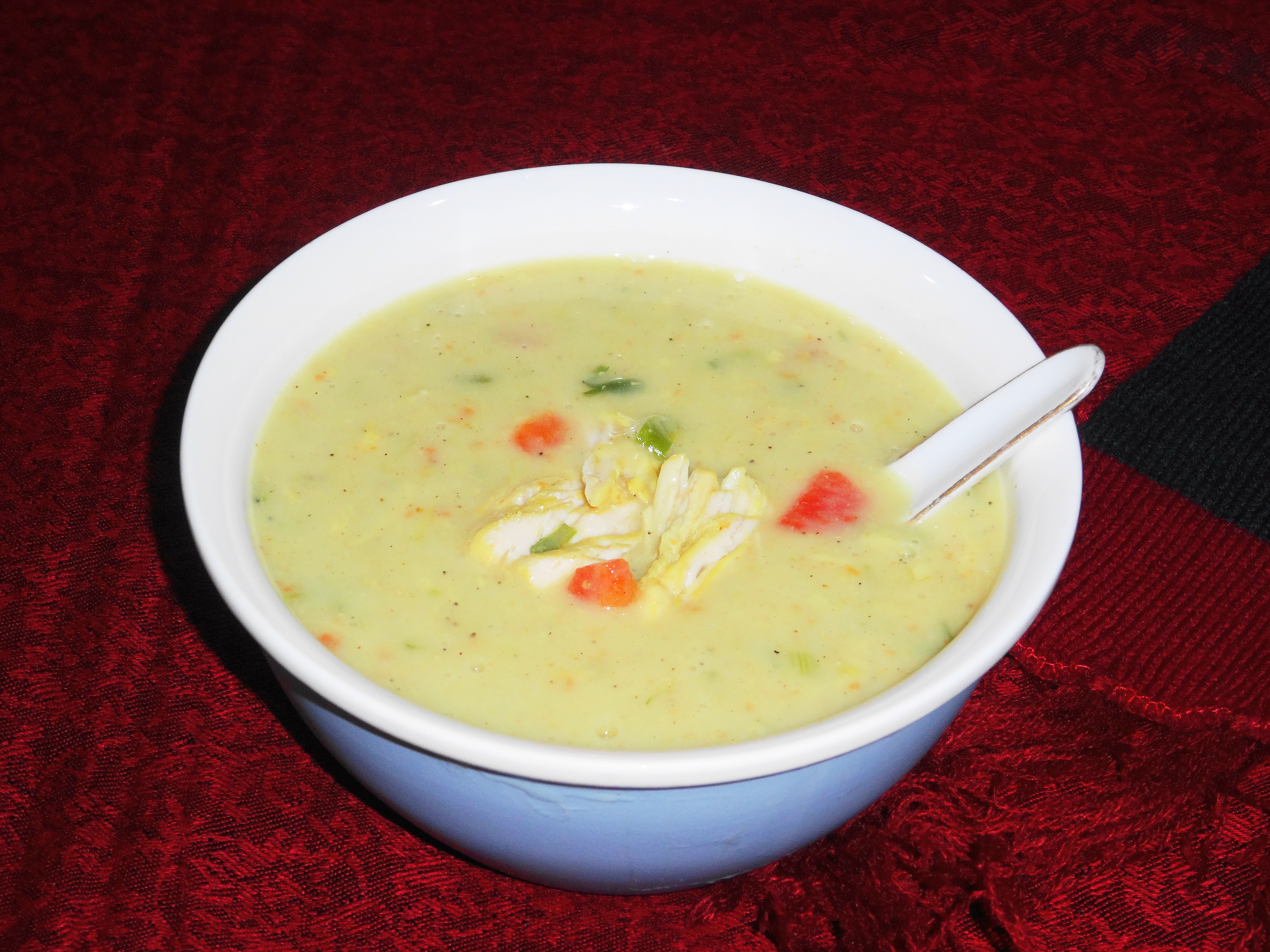 Cream of Chicken Soup, Home made Cream of Chicken Soup, کریم آف چکن سوپ